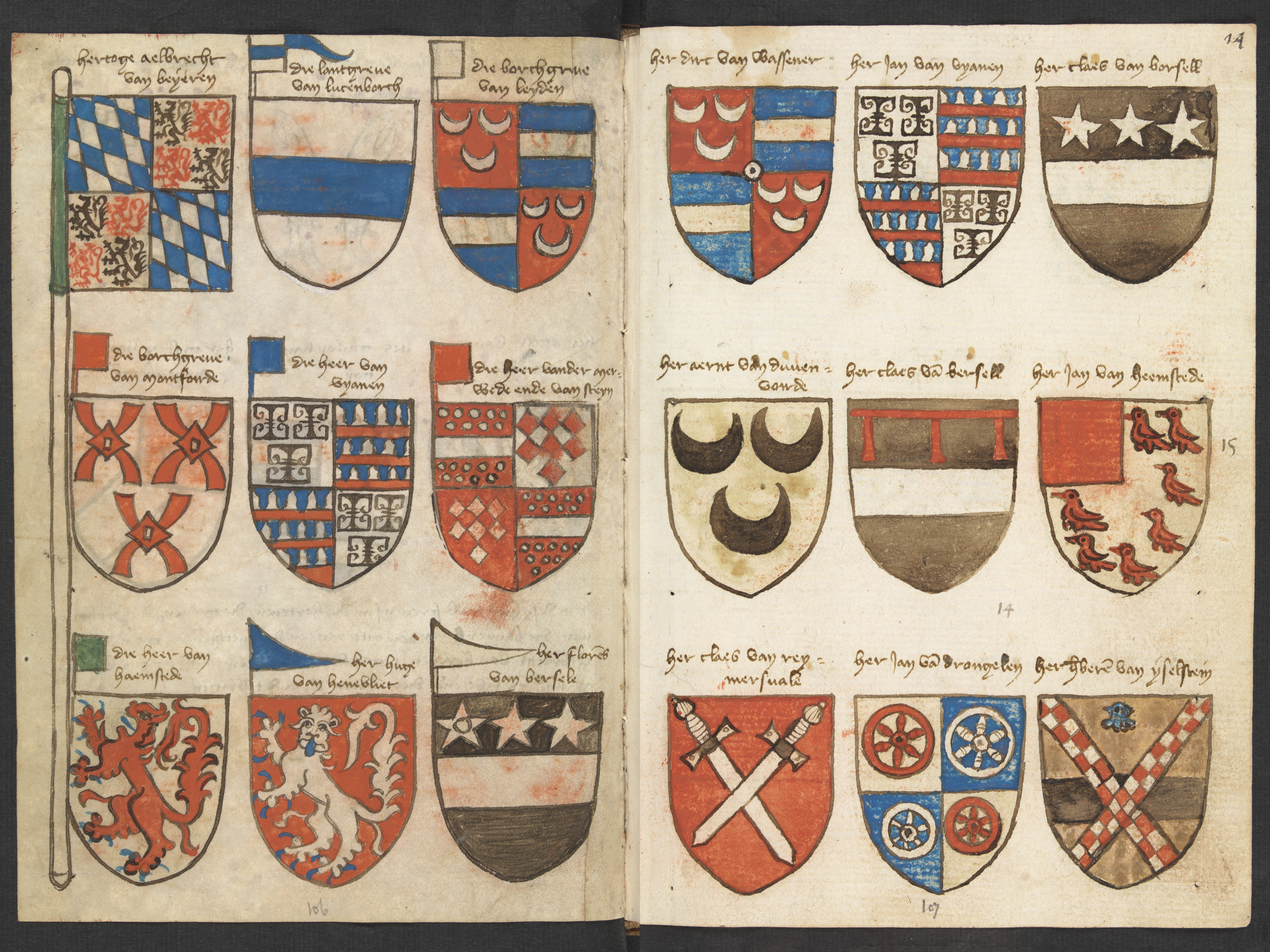 Lefthand side folio 013v; righthand side folio 014r from the Beyeren armorial / Wapenboek Beyeren